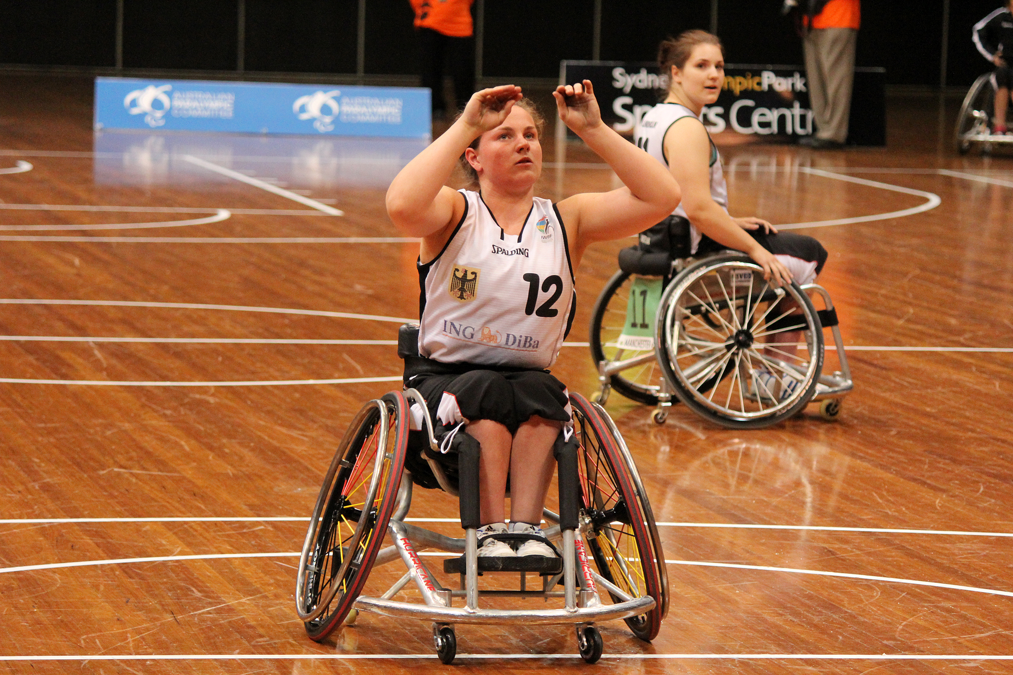 Germany's Annabel Breuer at the Germany vs Japan women's wheelchair basketball team at the Sports Centre.